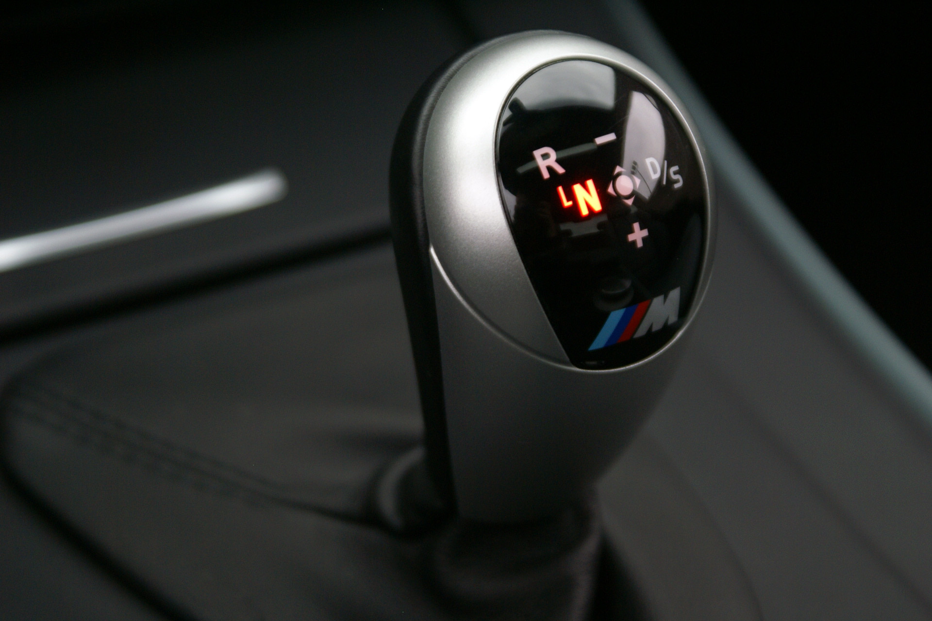 Dual Clutch Transmission manufactured by Getrag and produced for the BMW M3